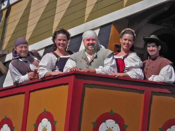 A cappella band "Bounding Main" at Bristol Renaissance Faire in Wisconsin